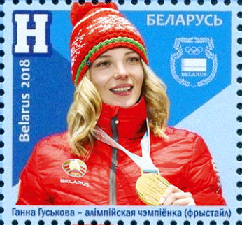 Medal winners of the XXIII Olympic Winter Games in Pyeongchang